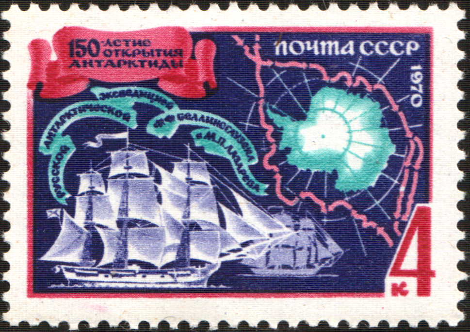 USSR stamp: Sloops-of-war "Mirny" and "Vostok" and Antarctic Map. Series: 150th Anniversary of Discovery of Antarctic Mainland Russian Round-the-world High-altitude Expedition by Fabian Gottlieb von Bellingshausen and Mikhail Lazarev (1820.01.28)